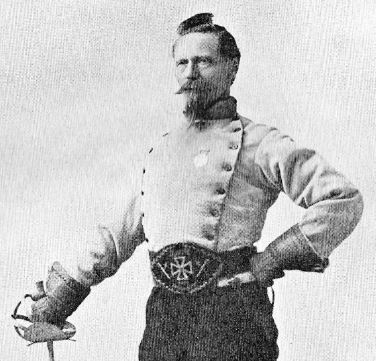 Photograph of Colonel Thomas H. Monstery, late nineteenth century.